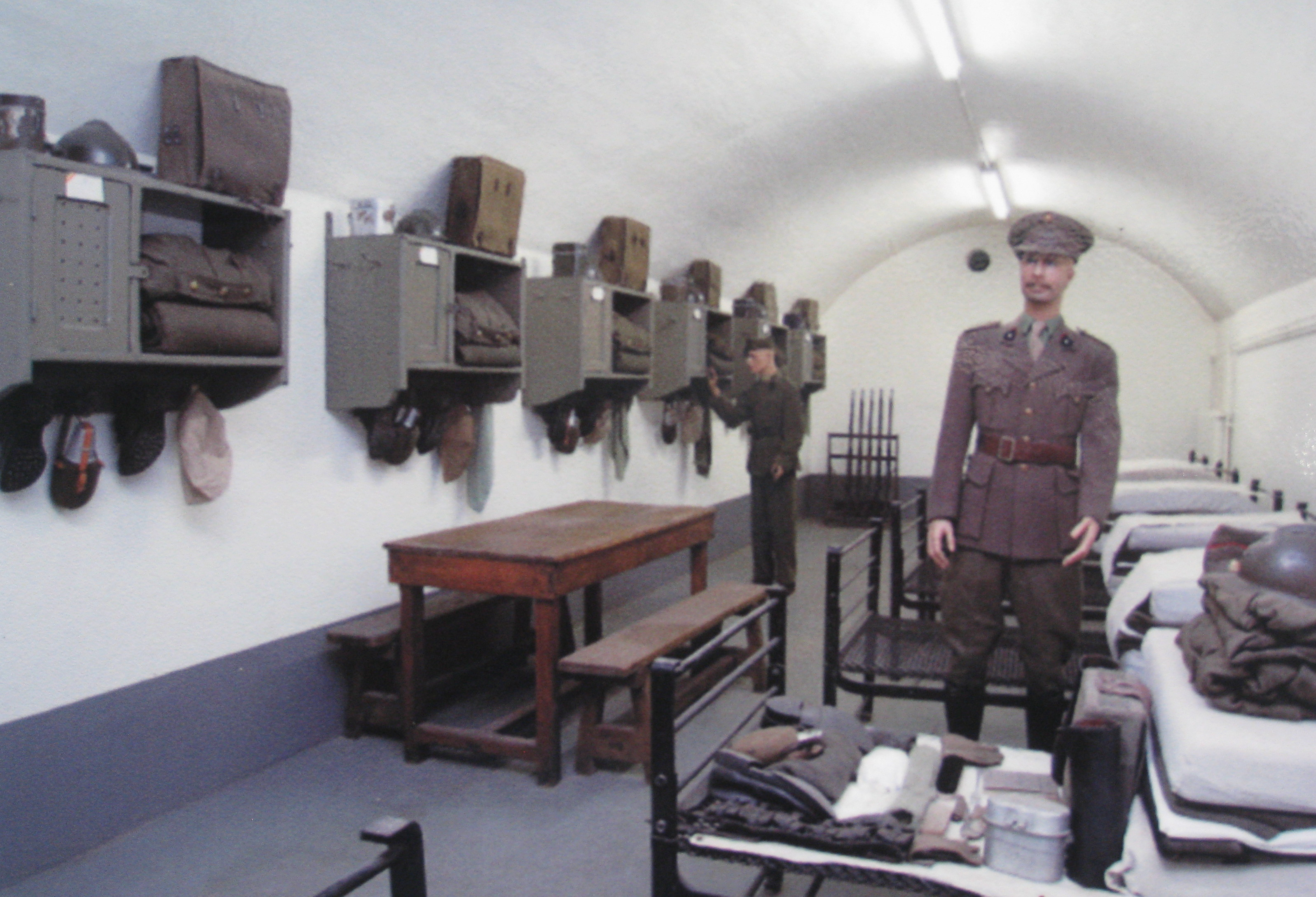 Fort Eben-Emael